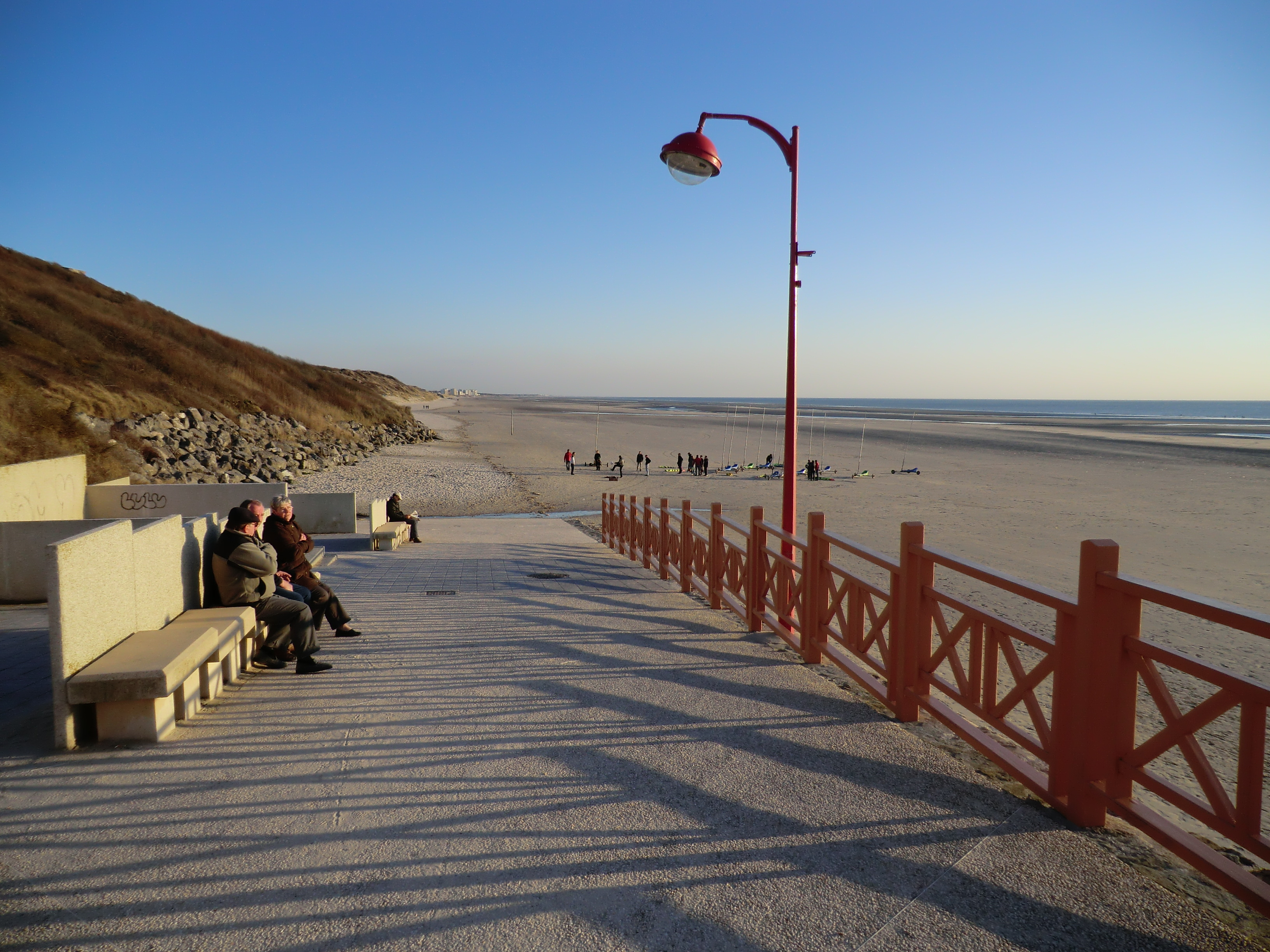 Enter of the beach, Equihen-plage, Pas-De-Calais, France.